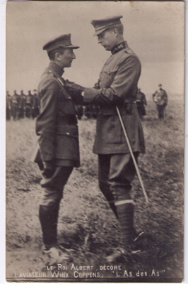 King Albert I of Belgium decorates the flying ace Willy Coppens.